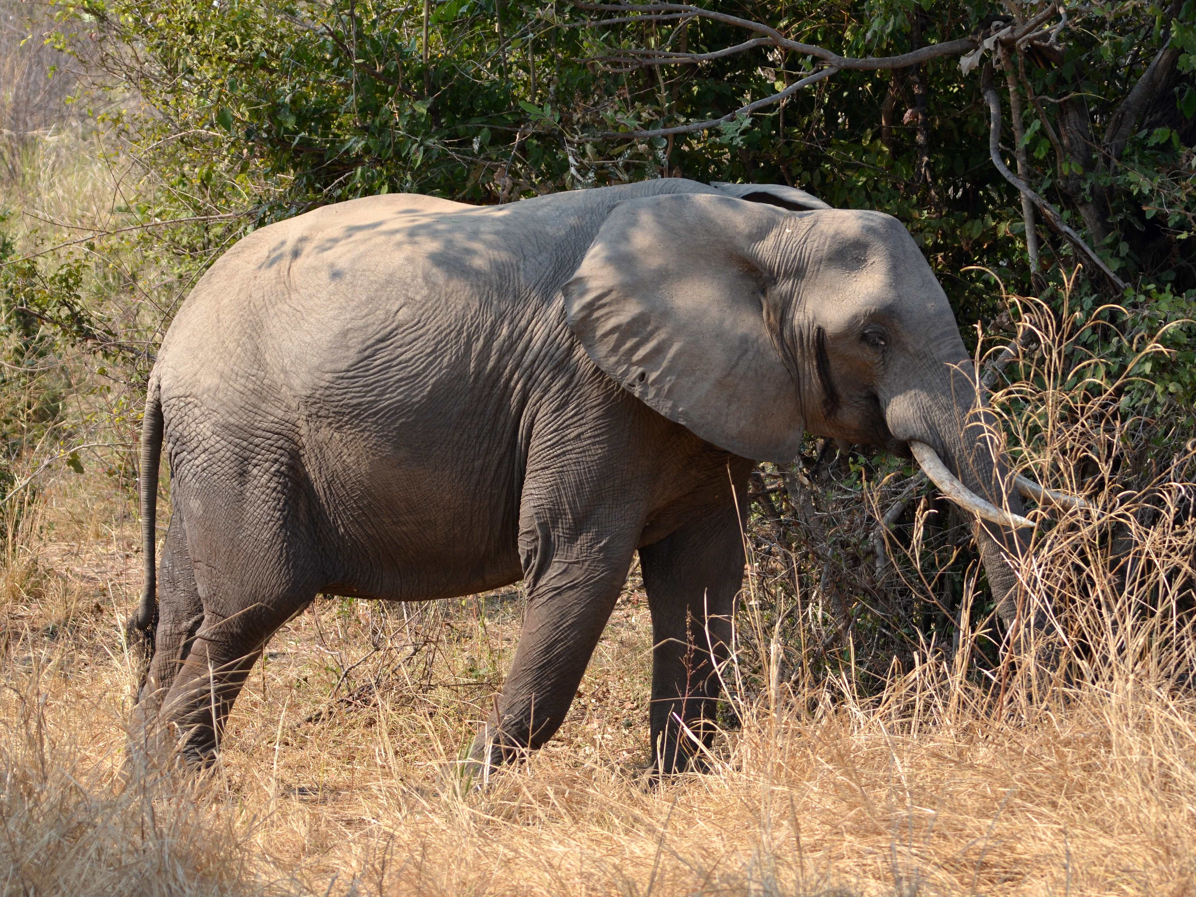 Male African Elephant showing secretion from temporal glands during musth at South Luangwa National Park - Zambia